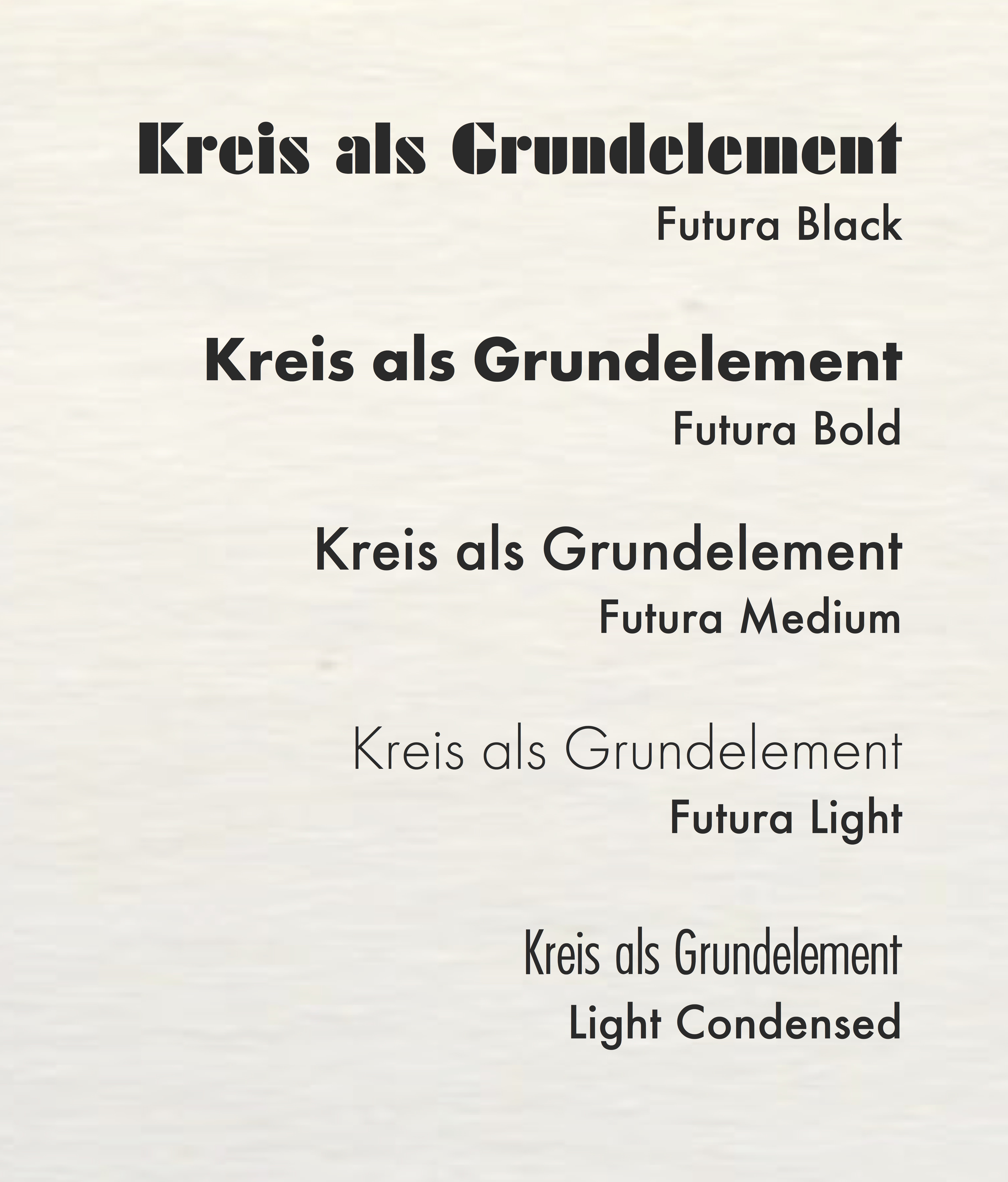 A comparison of Futura weights in digital format.